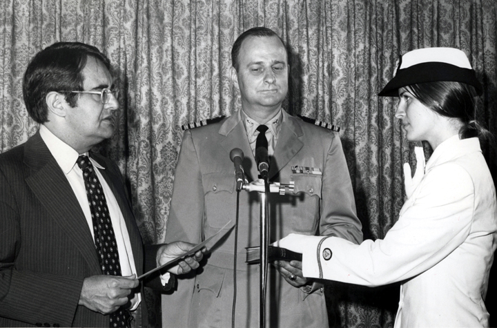 Peter George Peterson, U.S. Secretary of Commerce, swearing in first woman officer of the NOAA corp